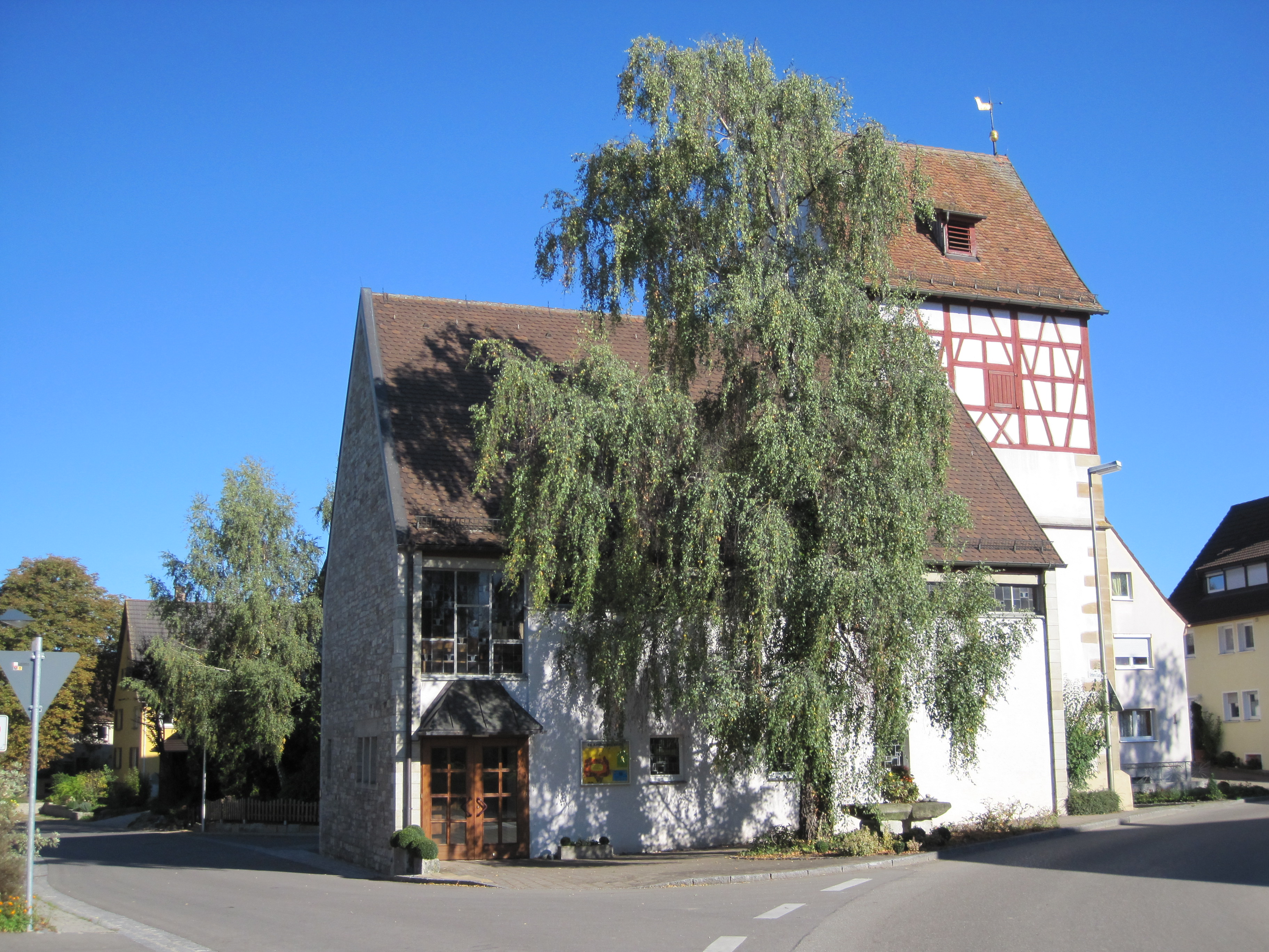 Church in Ingersheim, township of Crailsheim in Germany